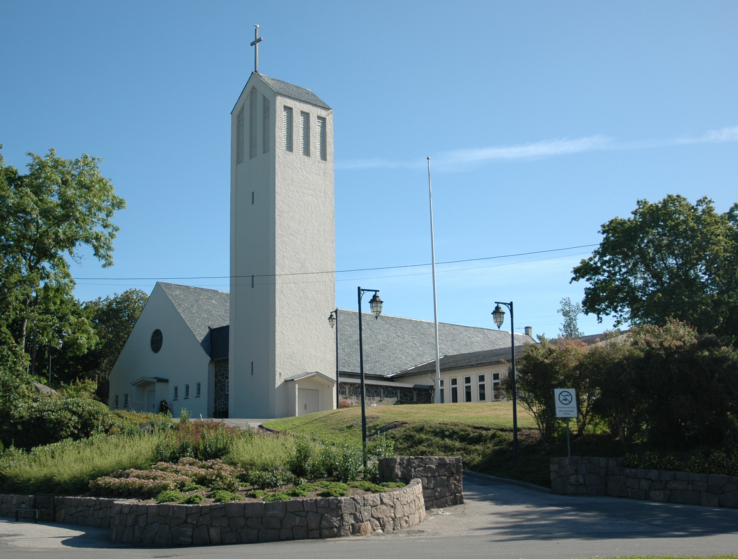 The church at Flekkerøy in Kristiansand, Norway. My own photo, July 2006